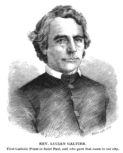 Lucien Galtier, a priest who founded Saint Peter's Church and founded a church in what became Saint Paul, Minnesota.